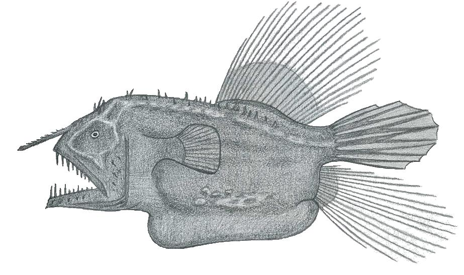 Illustrated by Ray Simpson Caulophryne polynema